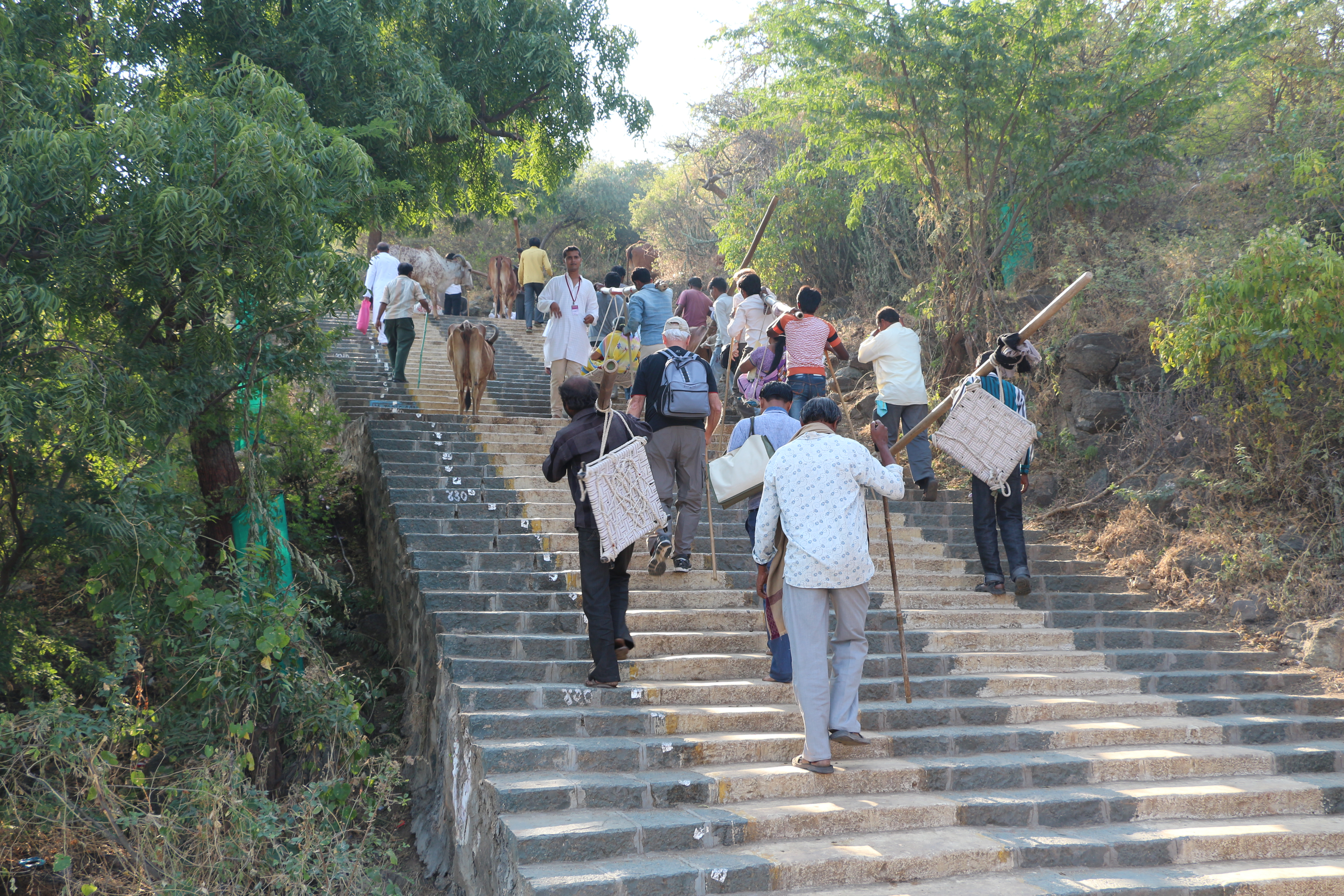 Ascent of Shatrunjaya hill, Palitana, India